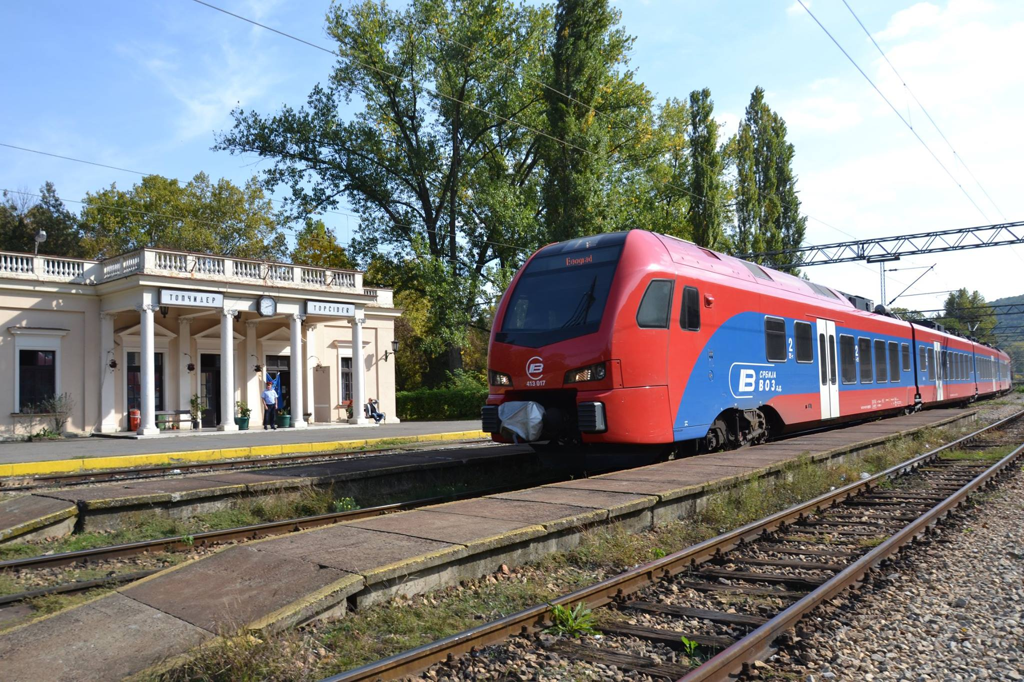 Stadler Flirt passing railway station Topčider (Belgrade).